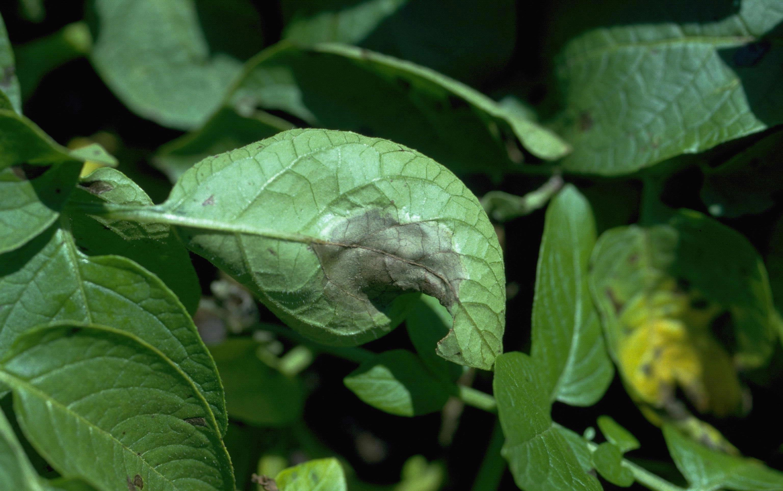 A potato leaflet showing late blight infection caused by Phytophthora infestans on a potato field at Peckham.